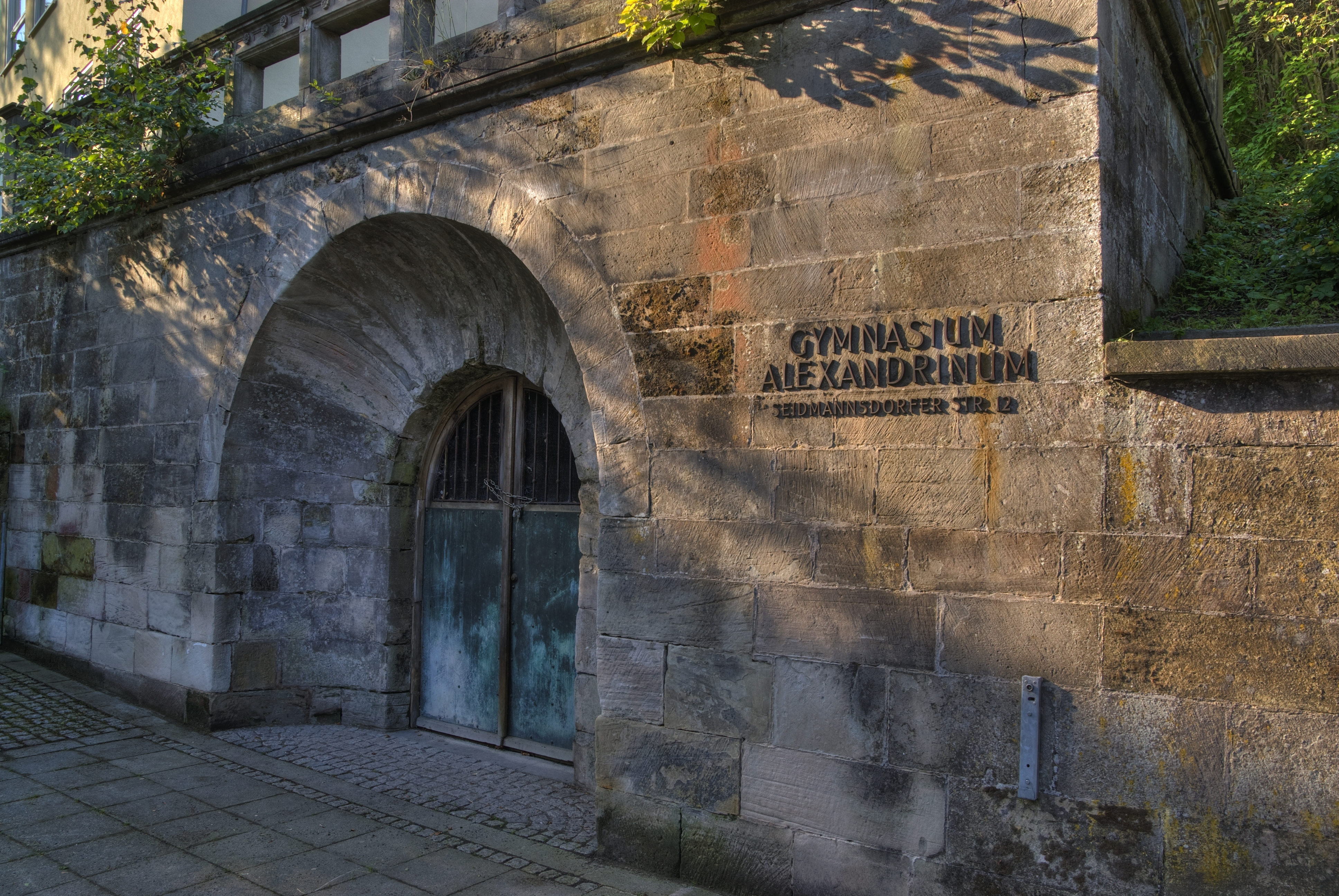 Alexandrinum, grammar school in coburg, bavaria.